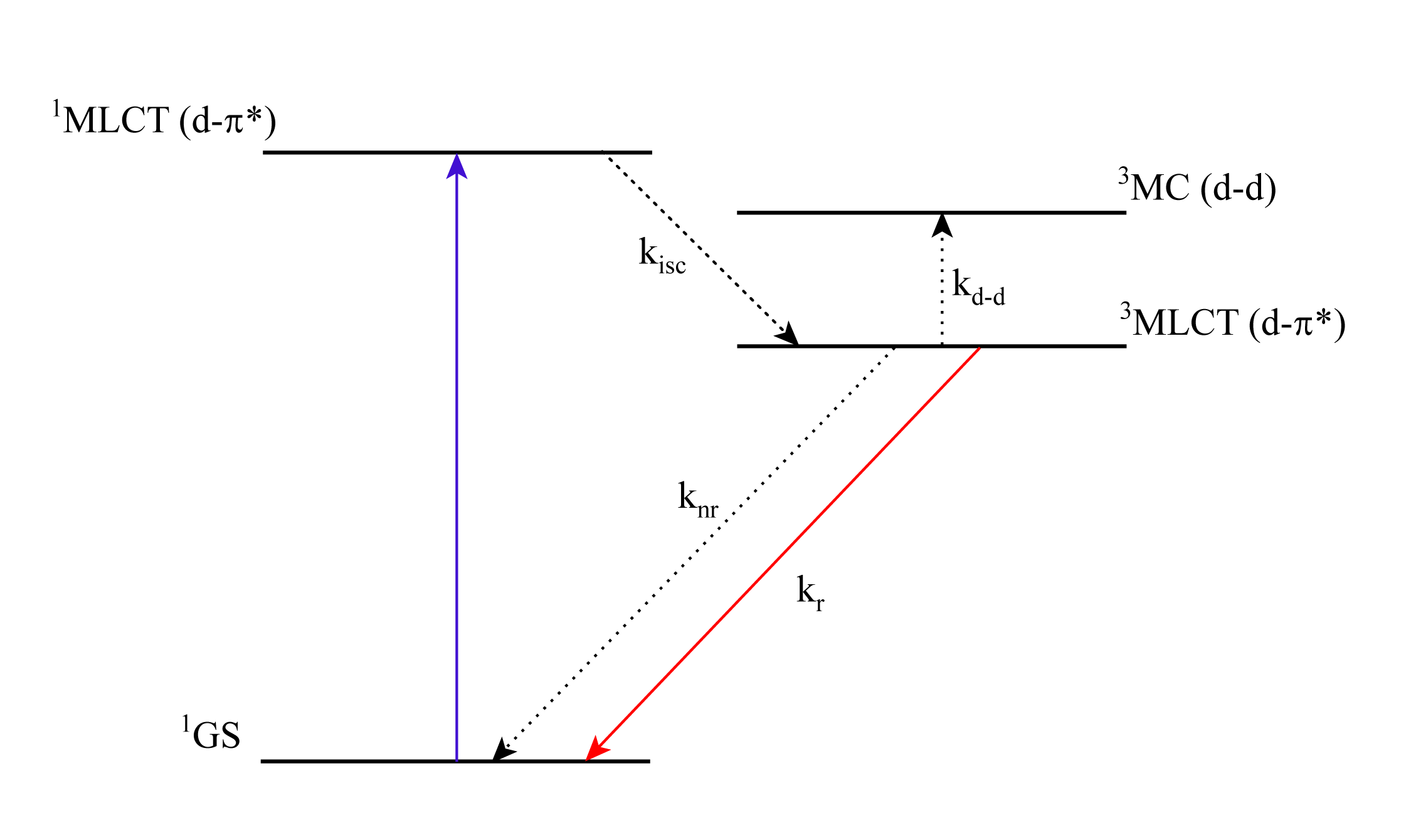 MLCT transition of [Ru(bpy)3]2+